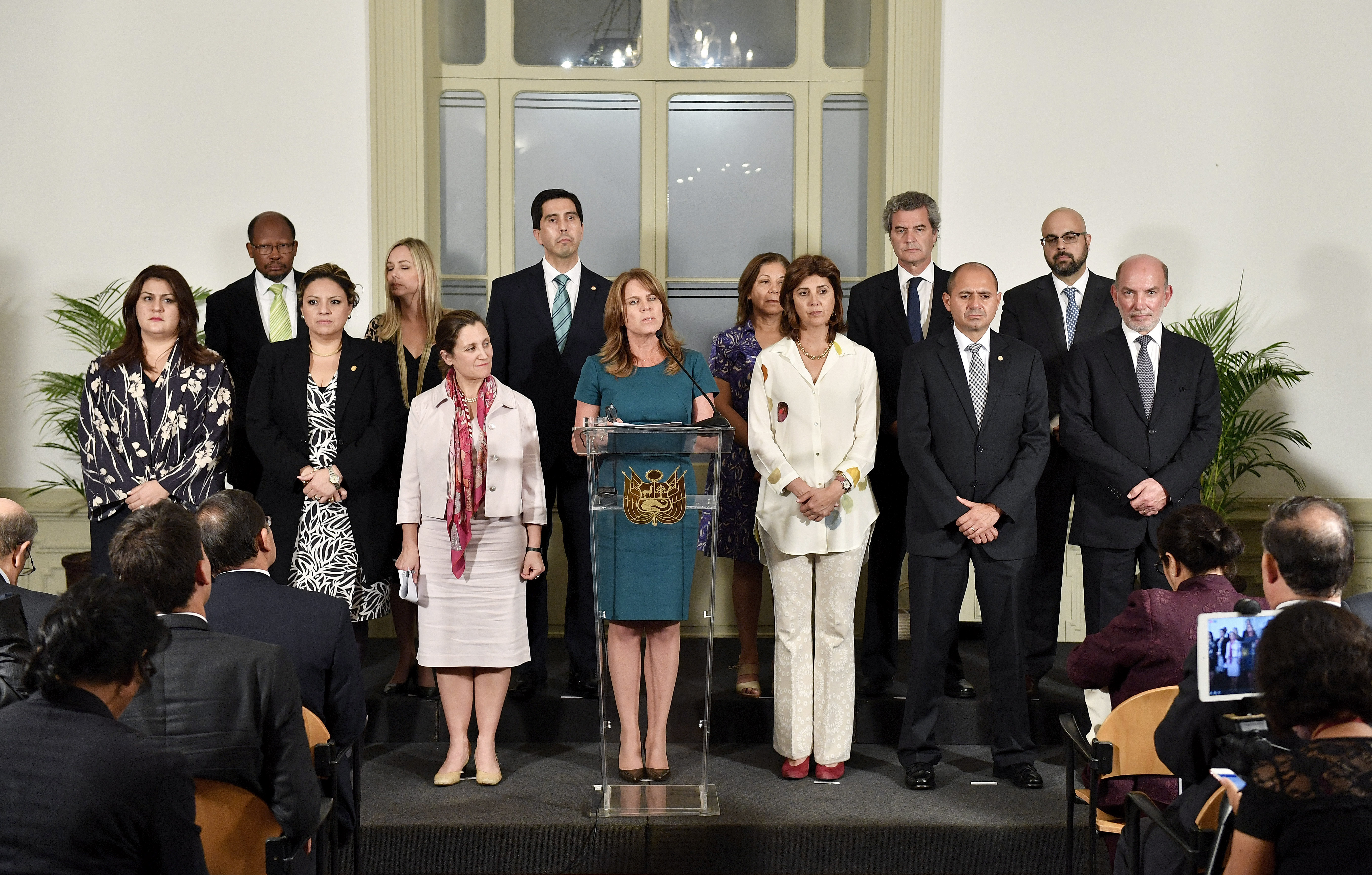 Representatives of the Lima Group (including Peruvian Foreign Minister Cayetana Aljovín in the center) at the Torre Tagle palace in Lima, Peru.